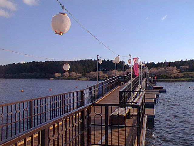 Fureai-bashi (Fureai Bridge) over the Byodonuma in Tome City, Miyagi Prefecture, Japan